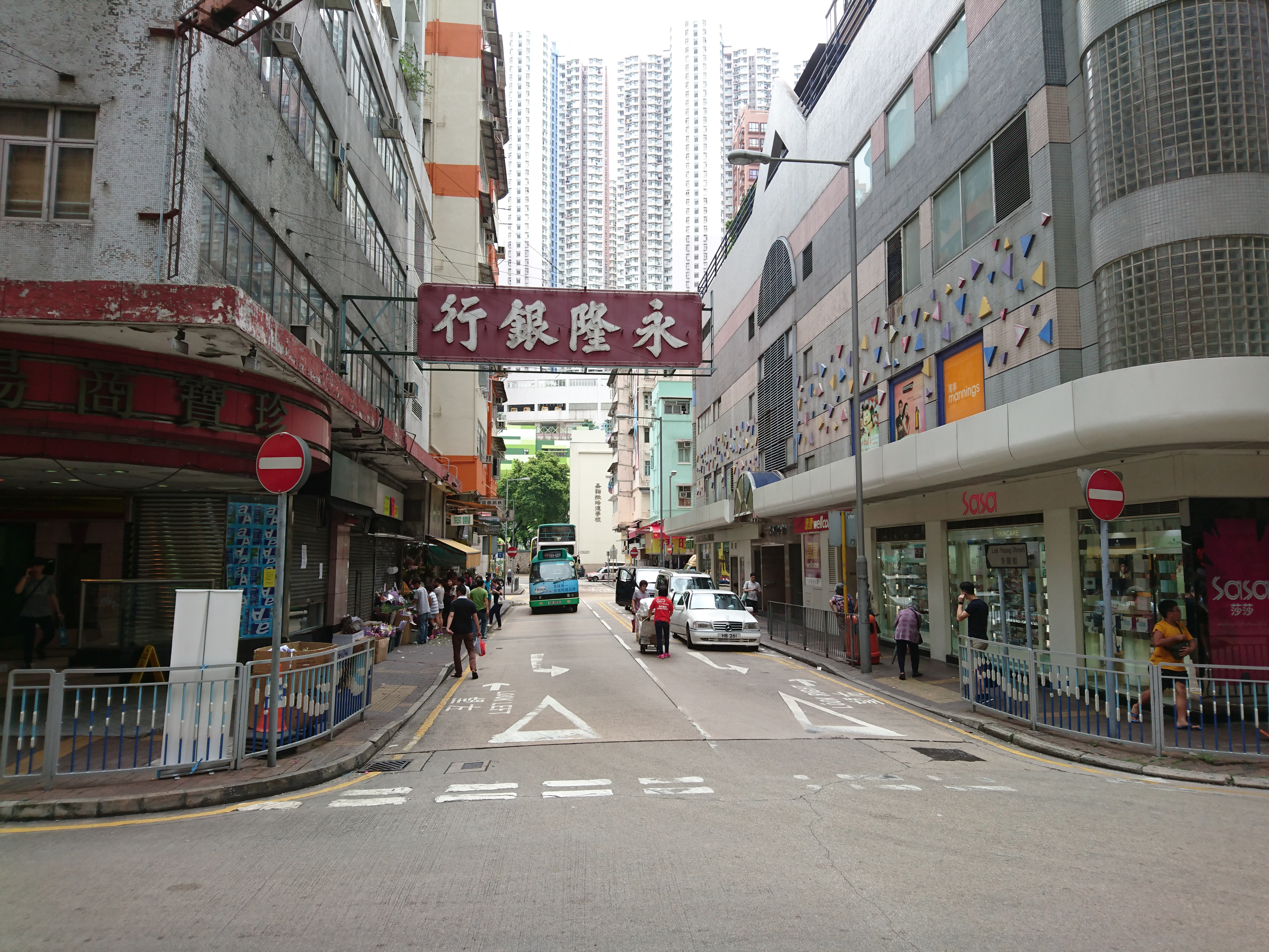 Lok Yeung Street